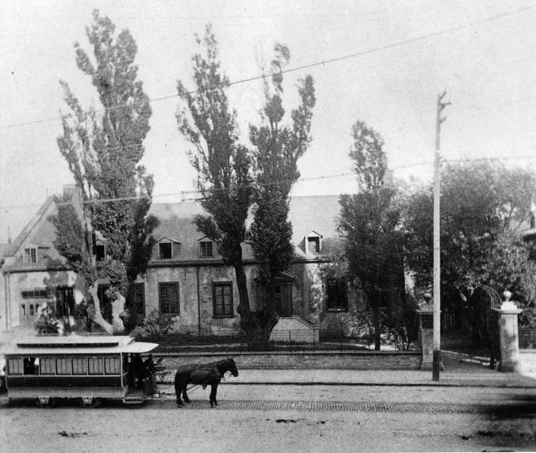 Photograph, Horse tram at Chateau de Ramezay, Notre Dame Street, Montreal, QC, about 1870, James George Parks, Silver salts on paper mounted on card - Albumen process - 8.8 x 17.7 cm